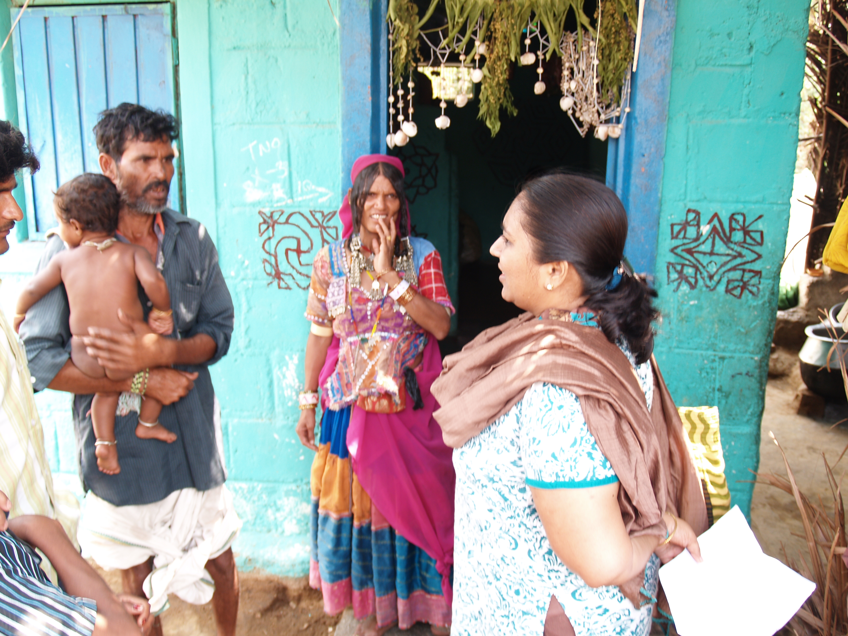 Snap taken when Singing skylarks Volunteers were counseling Kere thanda village people